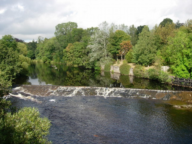 Autumn tints on the River Ericht at Blairgowrie.